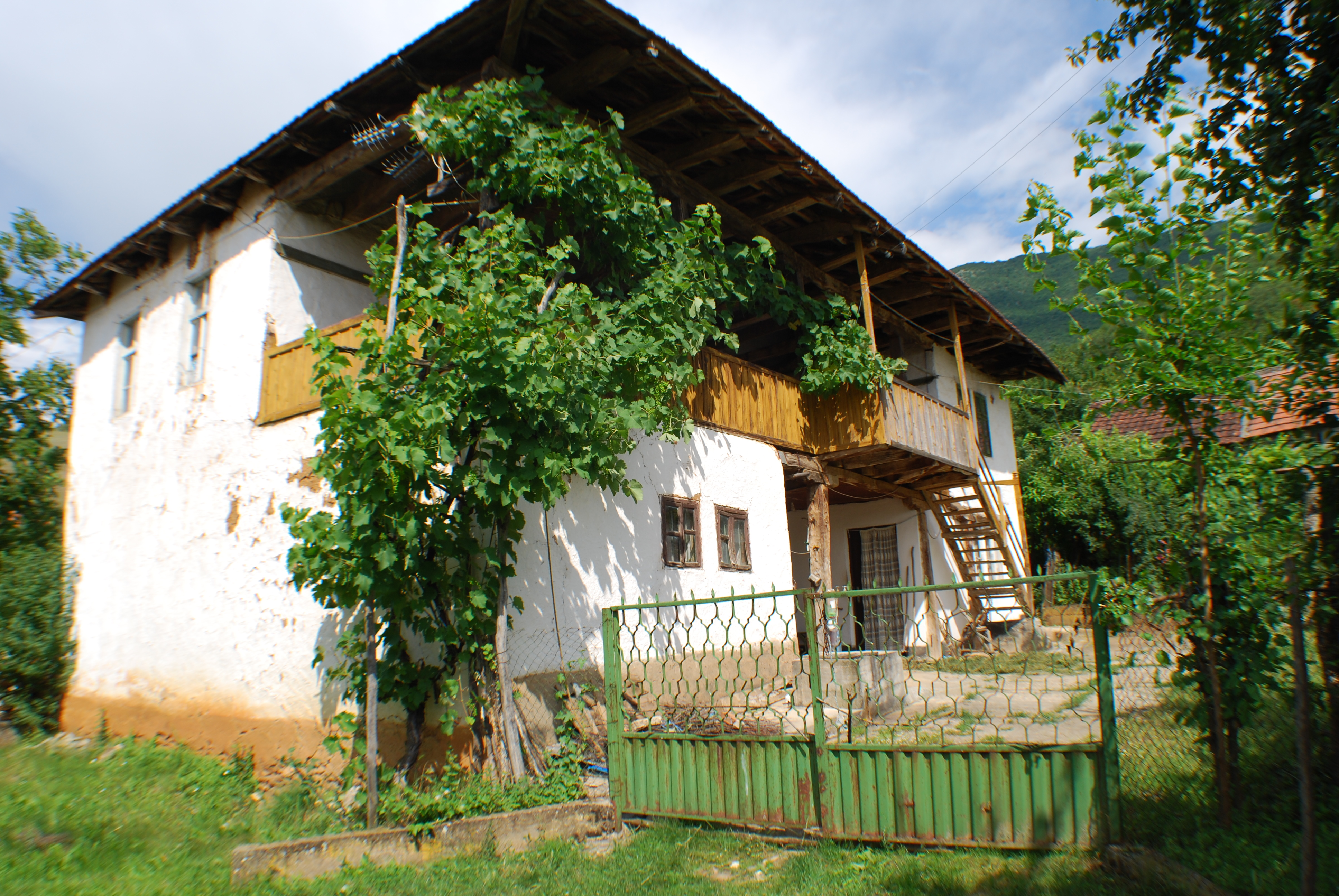 Old House in Blace, Tetovo